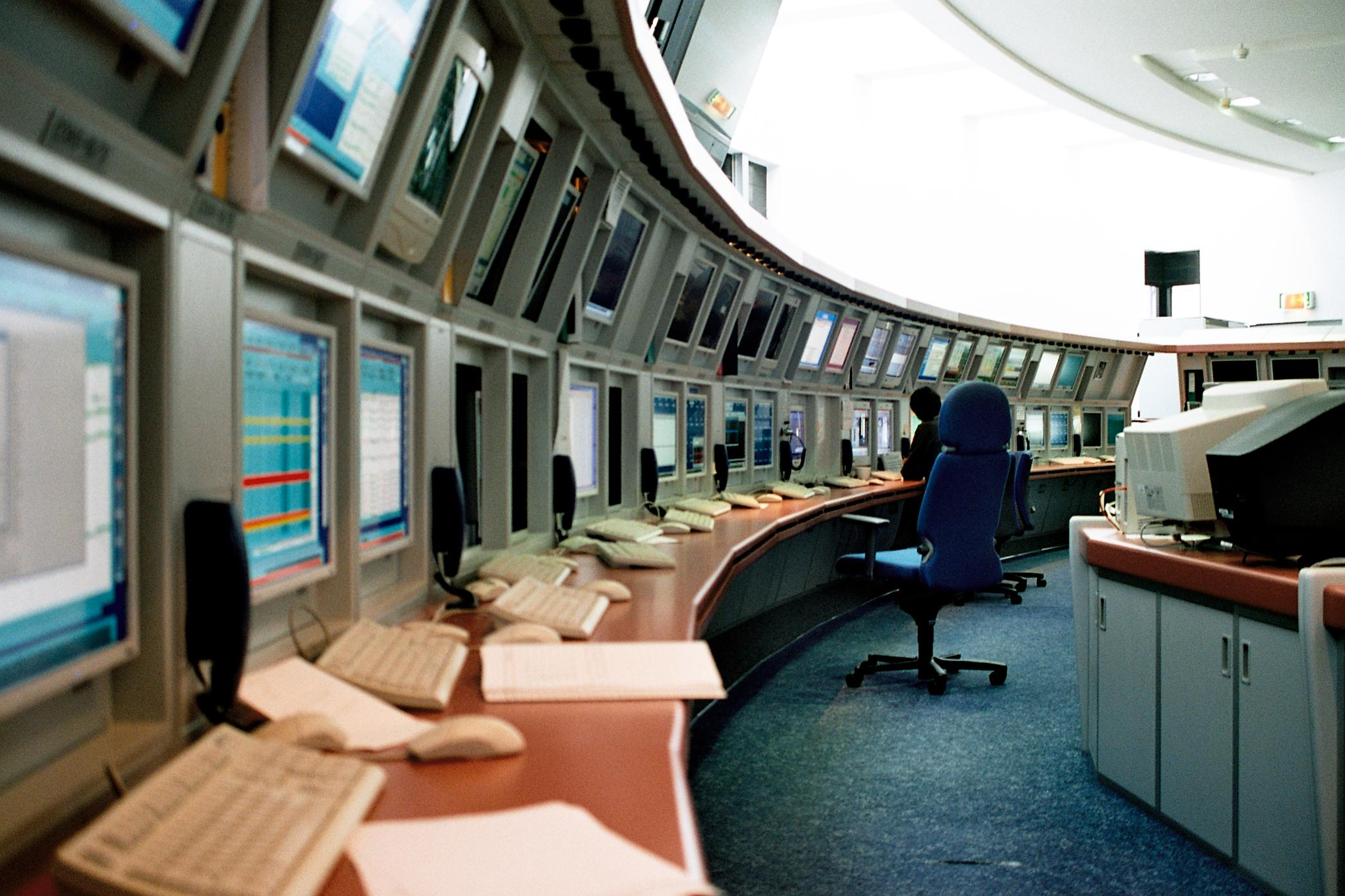 Control room for MSG (Meteosat Second Generation) satellites, Darmstadt, Germany. Taken by me, October 2006.